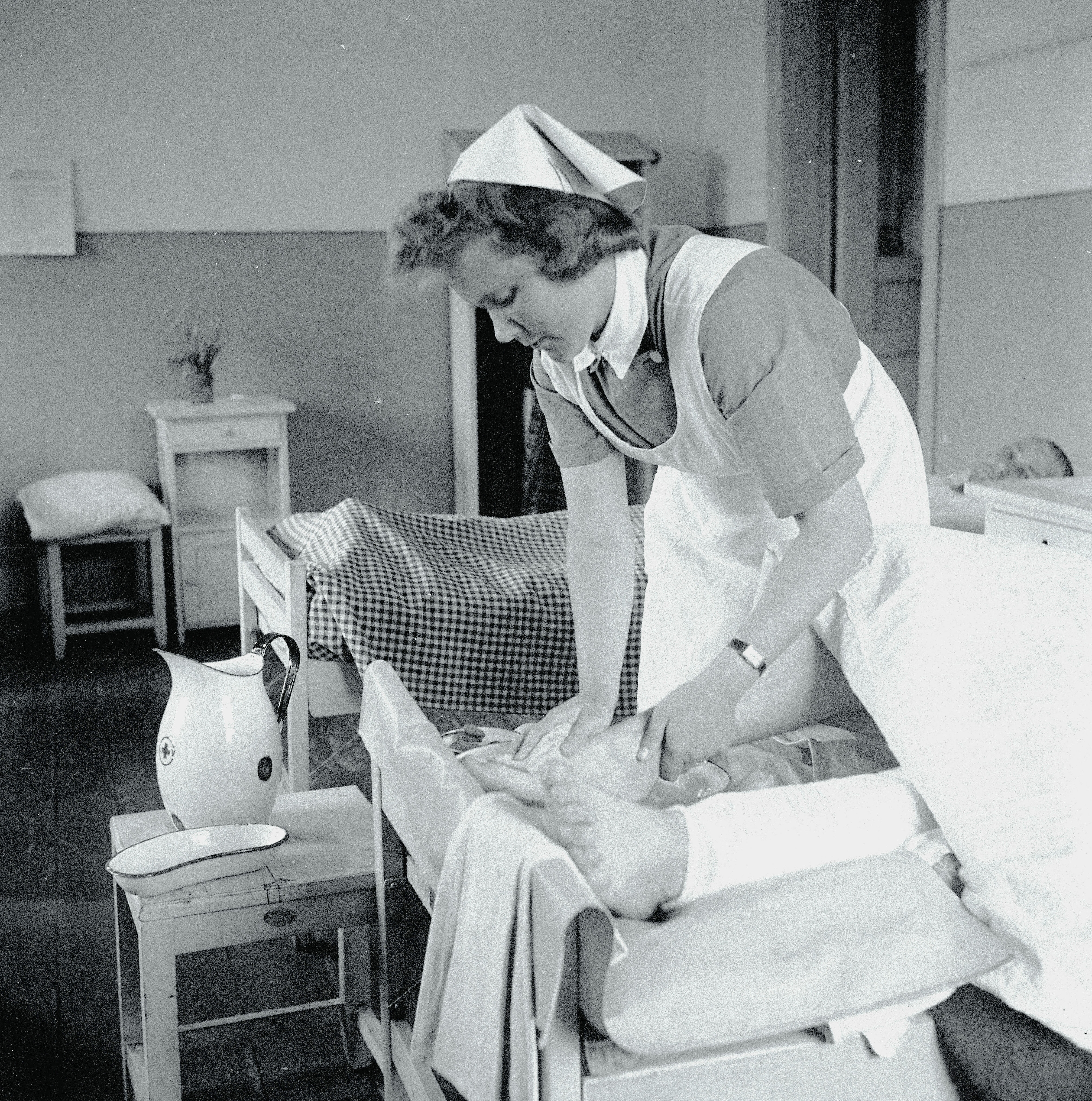 Assistant nurse of the Finnish Red Cross cleaning a patient during the Continuation war in Äänislinna military hospital. 26th May 1944. Photographer: Ensio Liesimaa. SA-kuva.